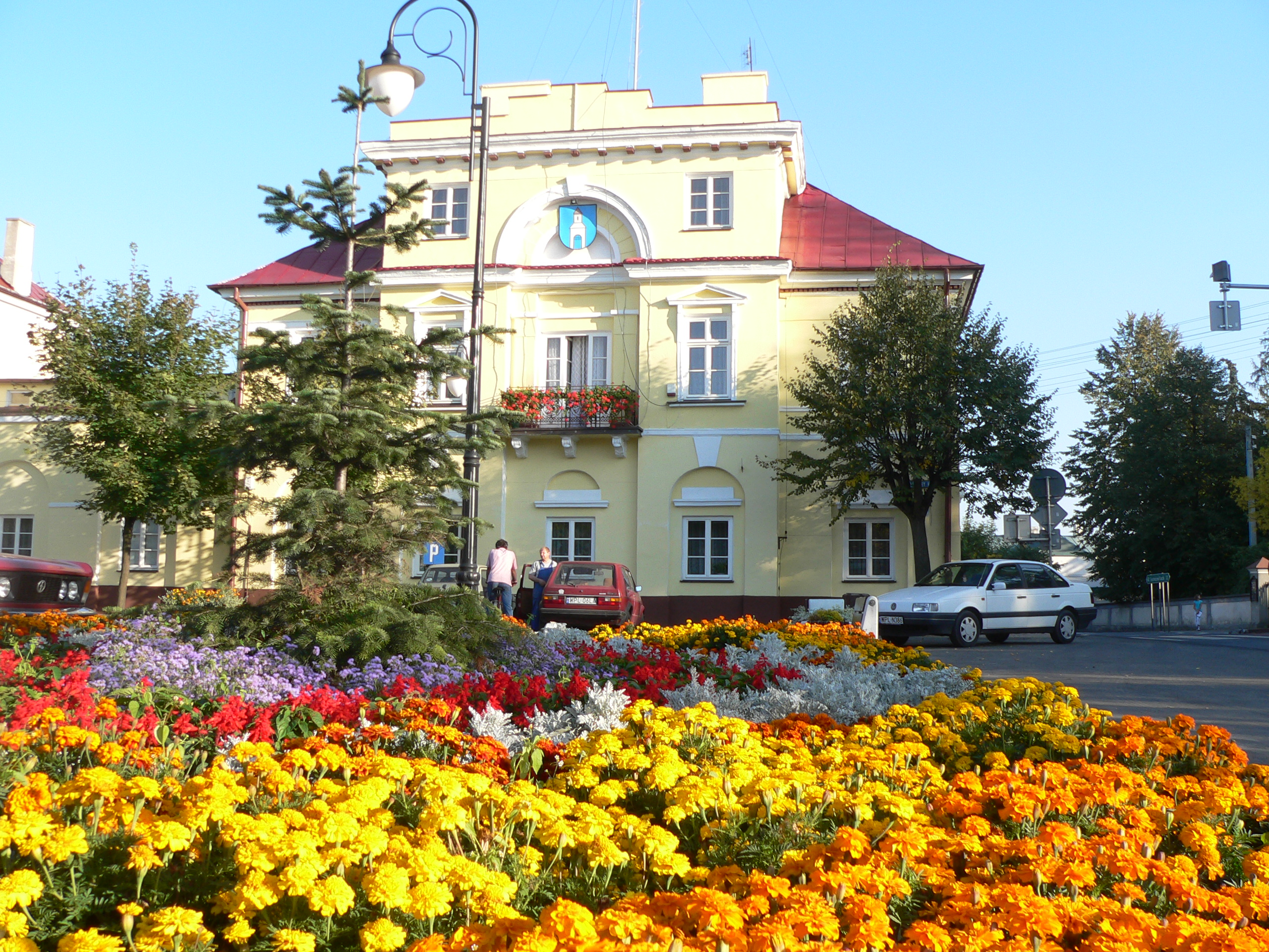 The Town Hall in the Old Market in Gąbin